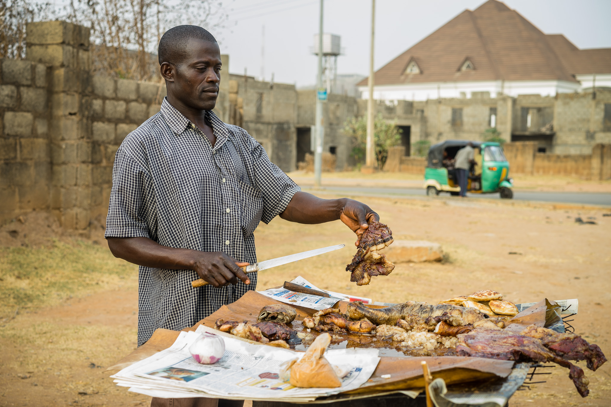 A man sells suya in the Asokoro section of Abuja, Nigeria. Suya is thinly sliced strips of meet cooked over an open fire, often on a wooden skewer. This is an image of "African people at work" from Nigeria